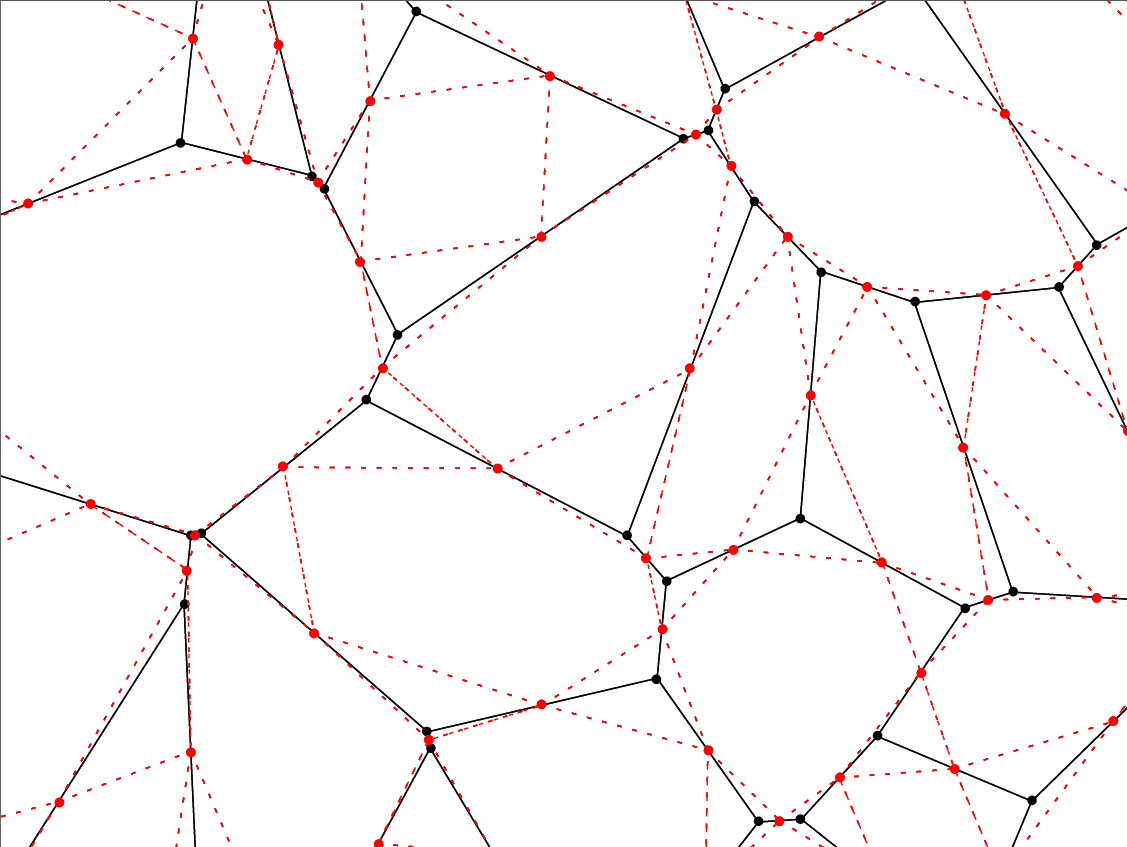 Veronoi Lattice Picture